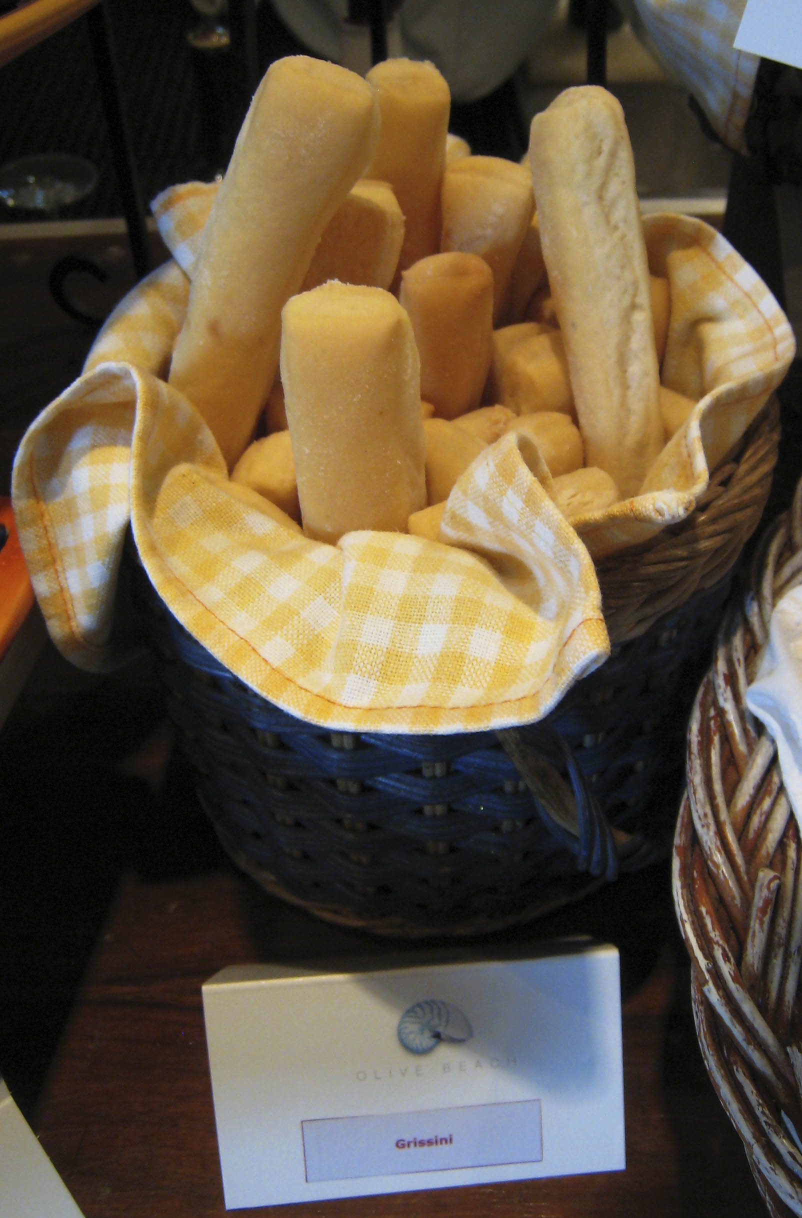 Grissini in a basket